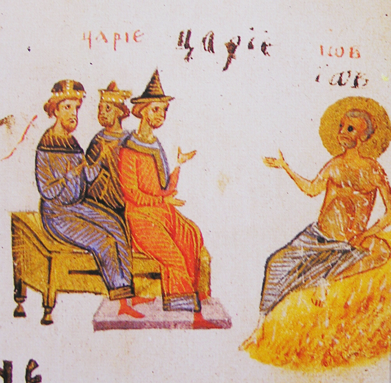 Kievan Psalter